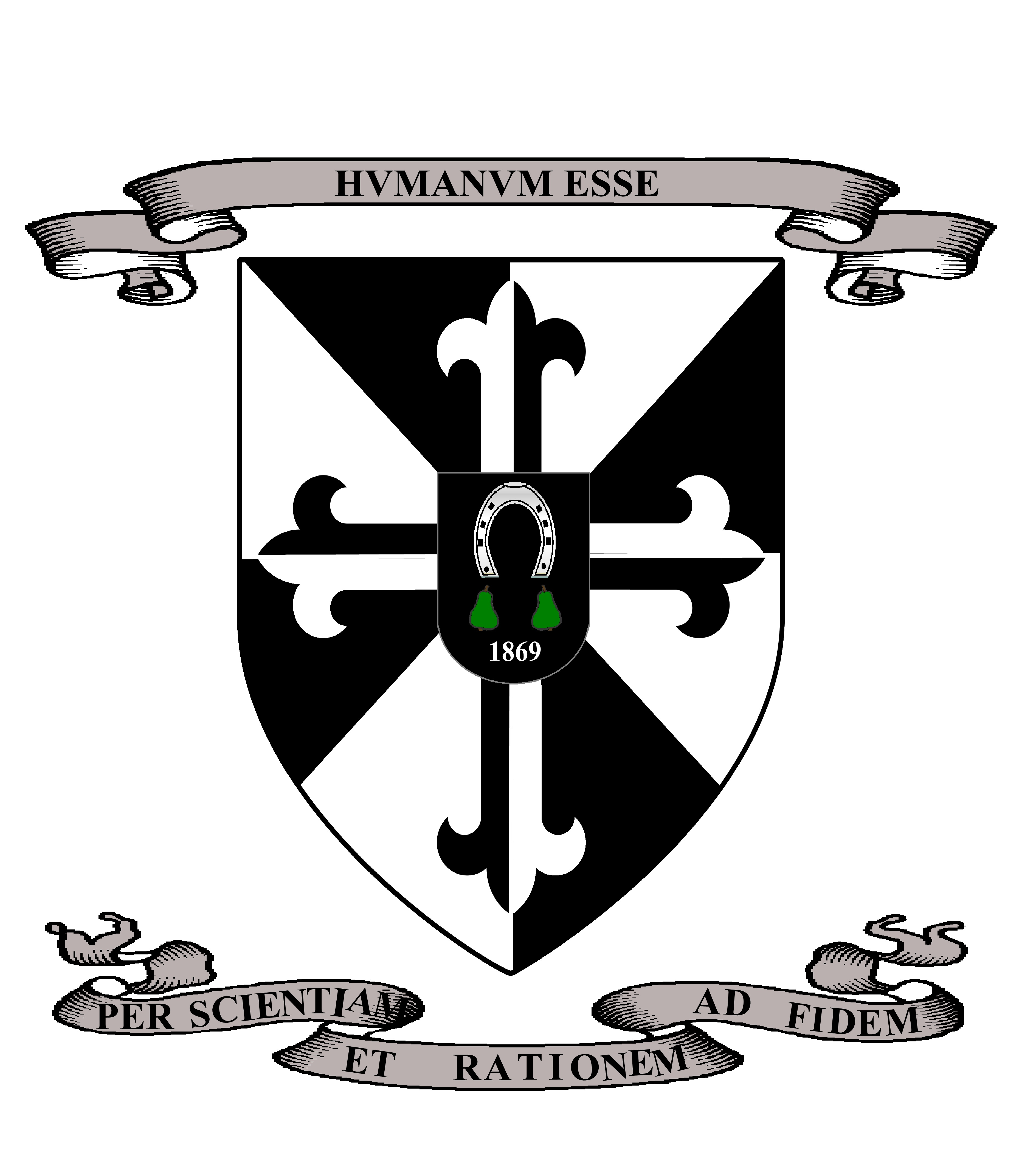 This is a representation of the Coat of Arms of St. Vincent Ferrer Seminary of the Archdiocese of Jaro (Philippines), as contained in the Seminary seal (cf.